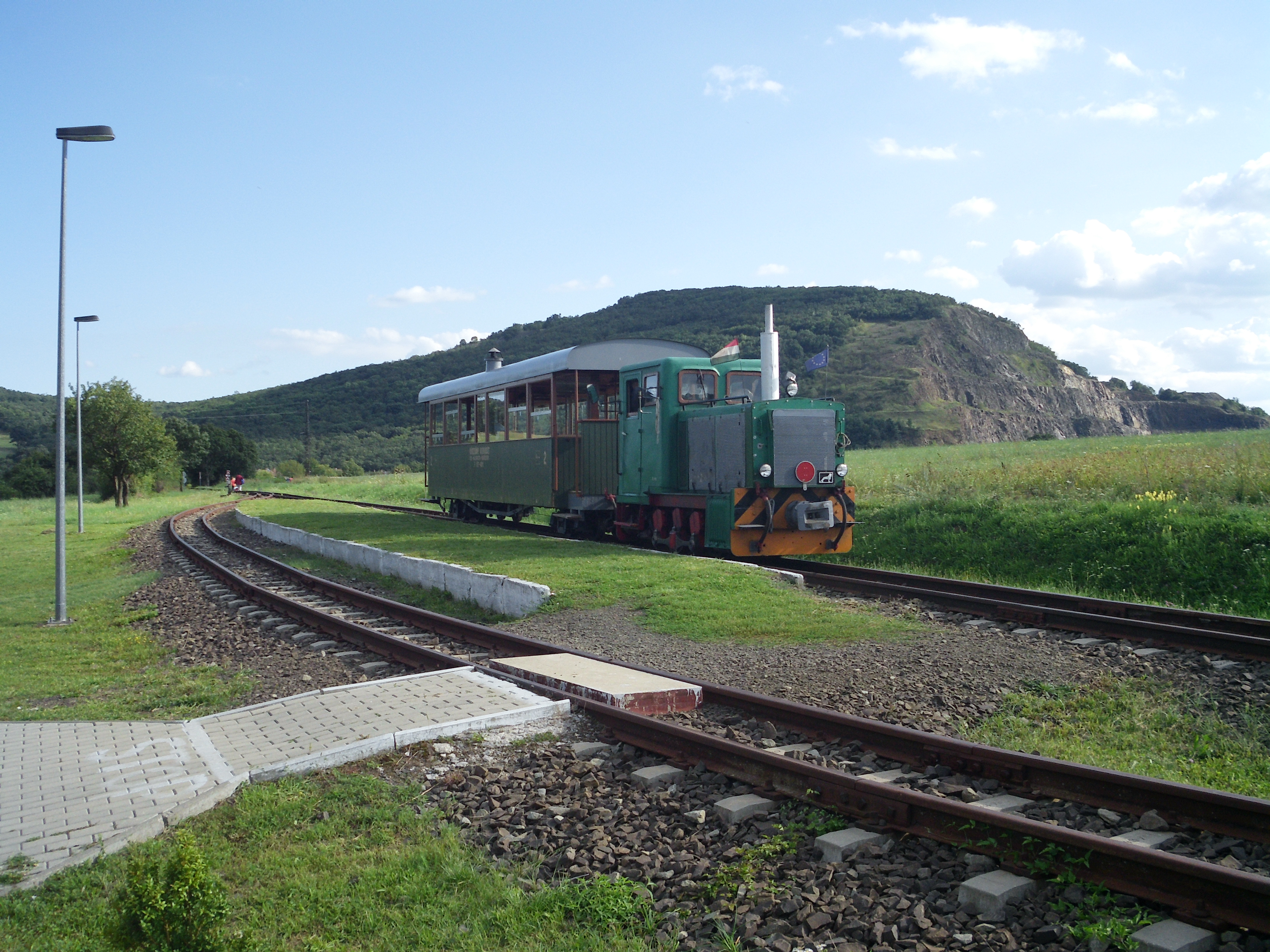 Narrow-gauge train of Börzsöny Kisvasút at a terminus in Márianosztra, Hungary.